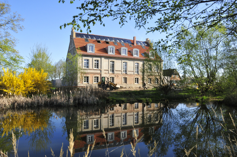 Farm house of Parin / Mecklenburg-Western Pomerania